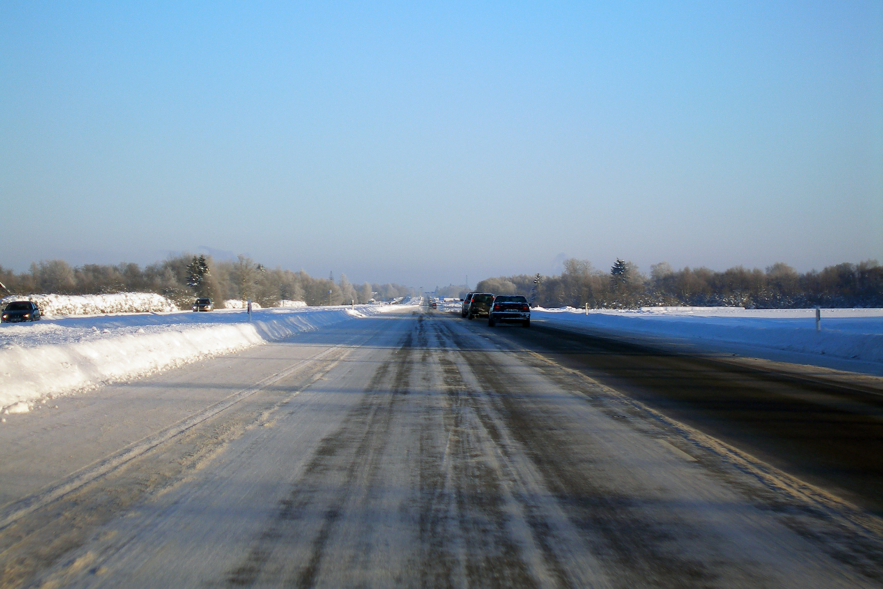 E20 (Tallinn–Narva highway) in Estonia near Kuusalu in winter.